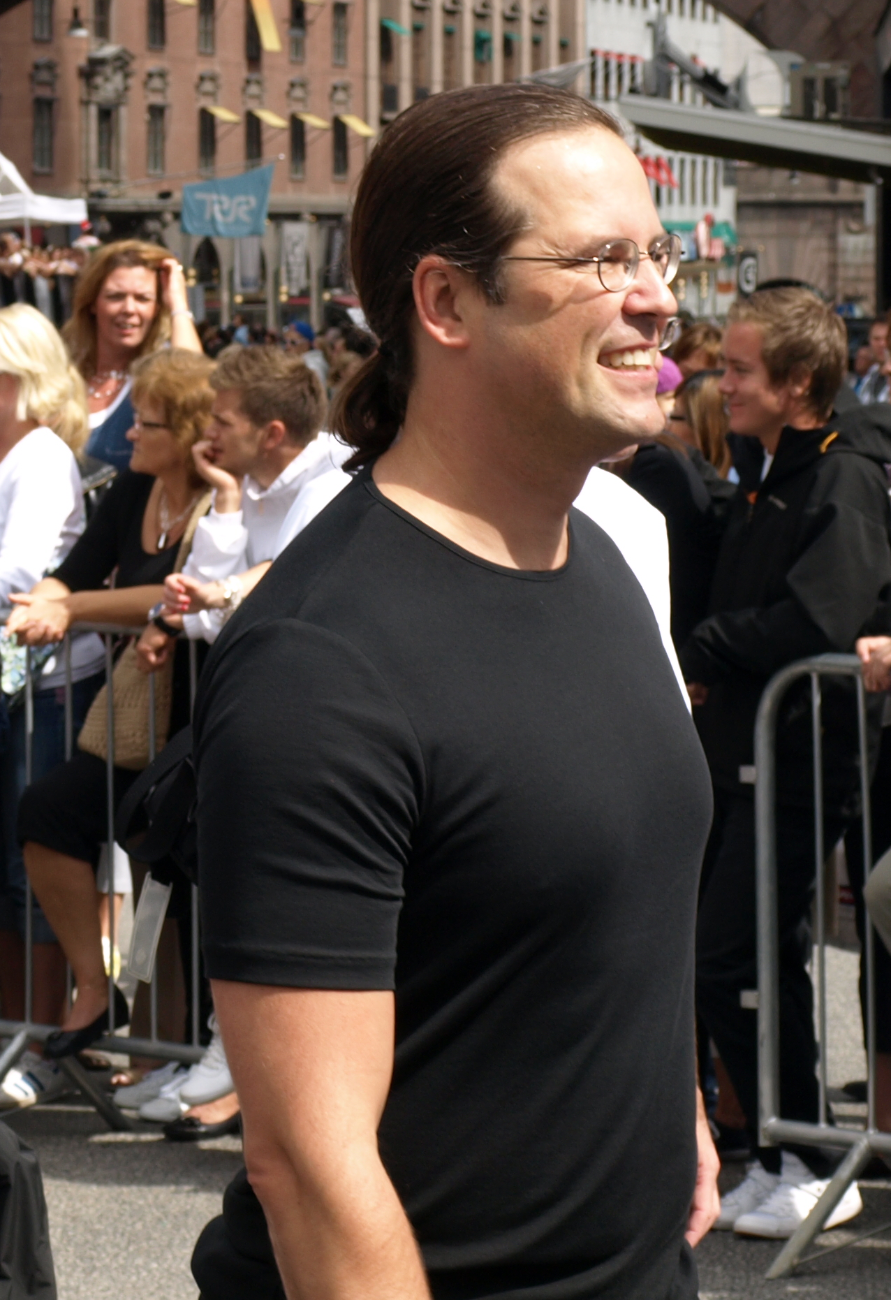 Swedish finance minister Anders Borg. Photo taken during the Stockholm Pride 2009.